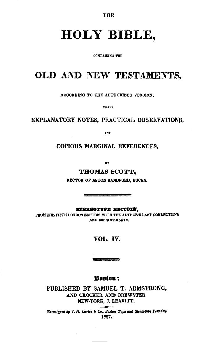 Front page of an 1827 printing of Samuel Turell Armstrong's stereotype edition of Scott's Family Bible